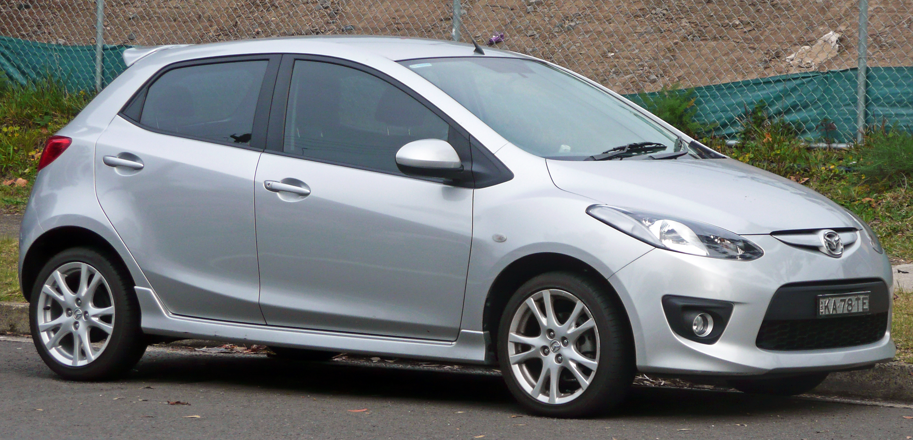 2007–2010 Mazda2 (DE) Genki 5-door hatchback. Photographed in Caringbah, New South Wales, Australia.